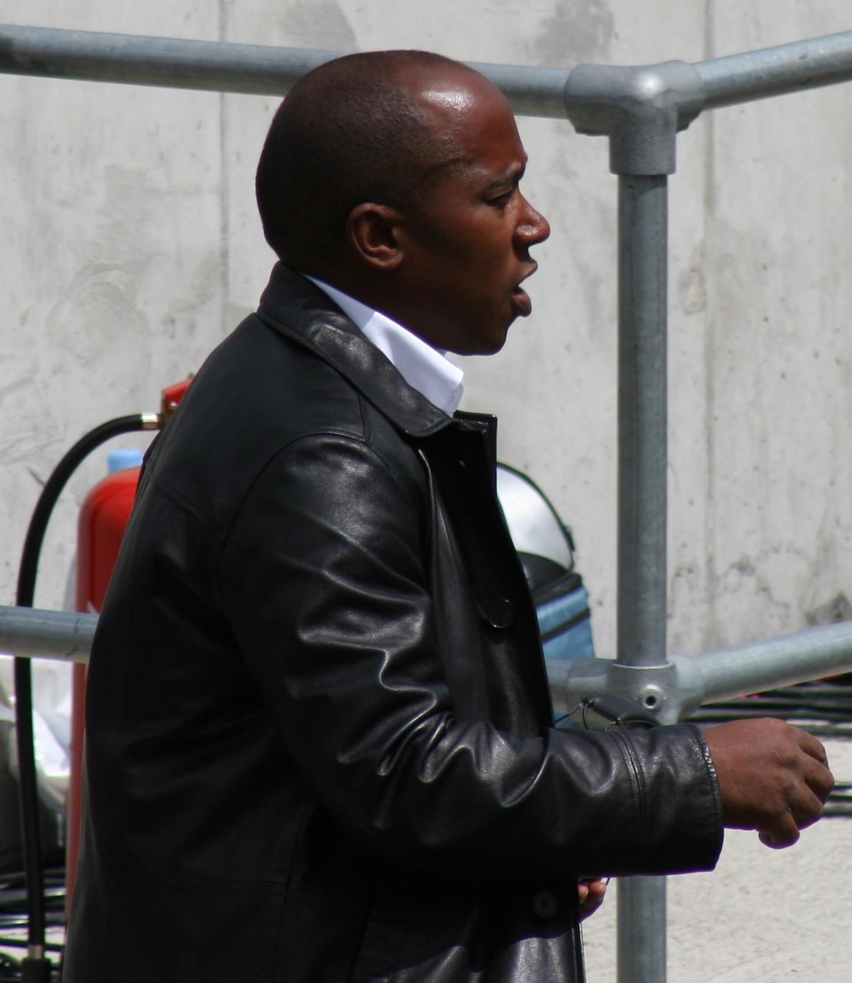 Anthony Hamilton, father of Lewis Hamilton, at the 2009 British Grand Prix.